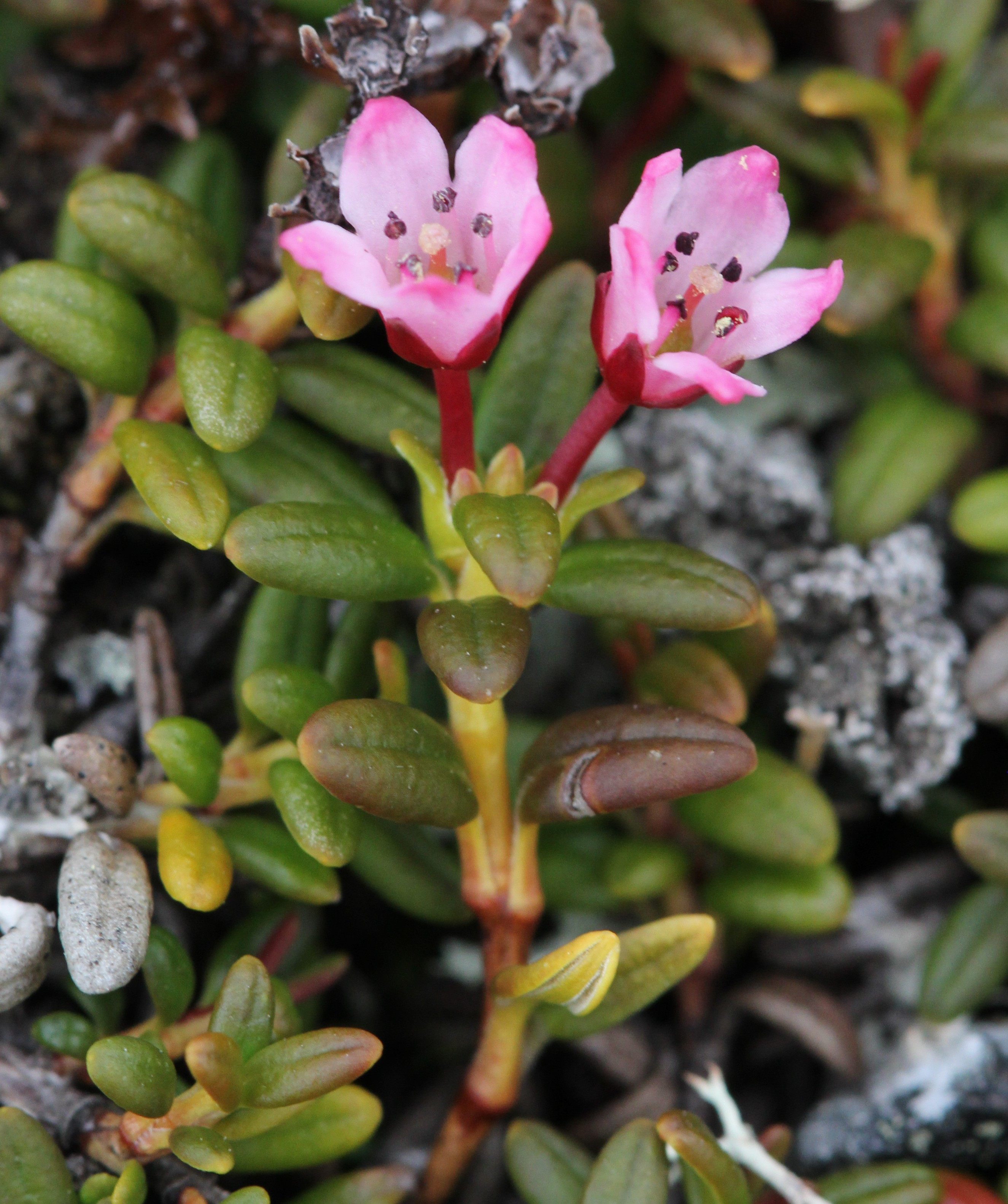 Loiseleuria procumbens, closeup